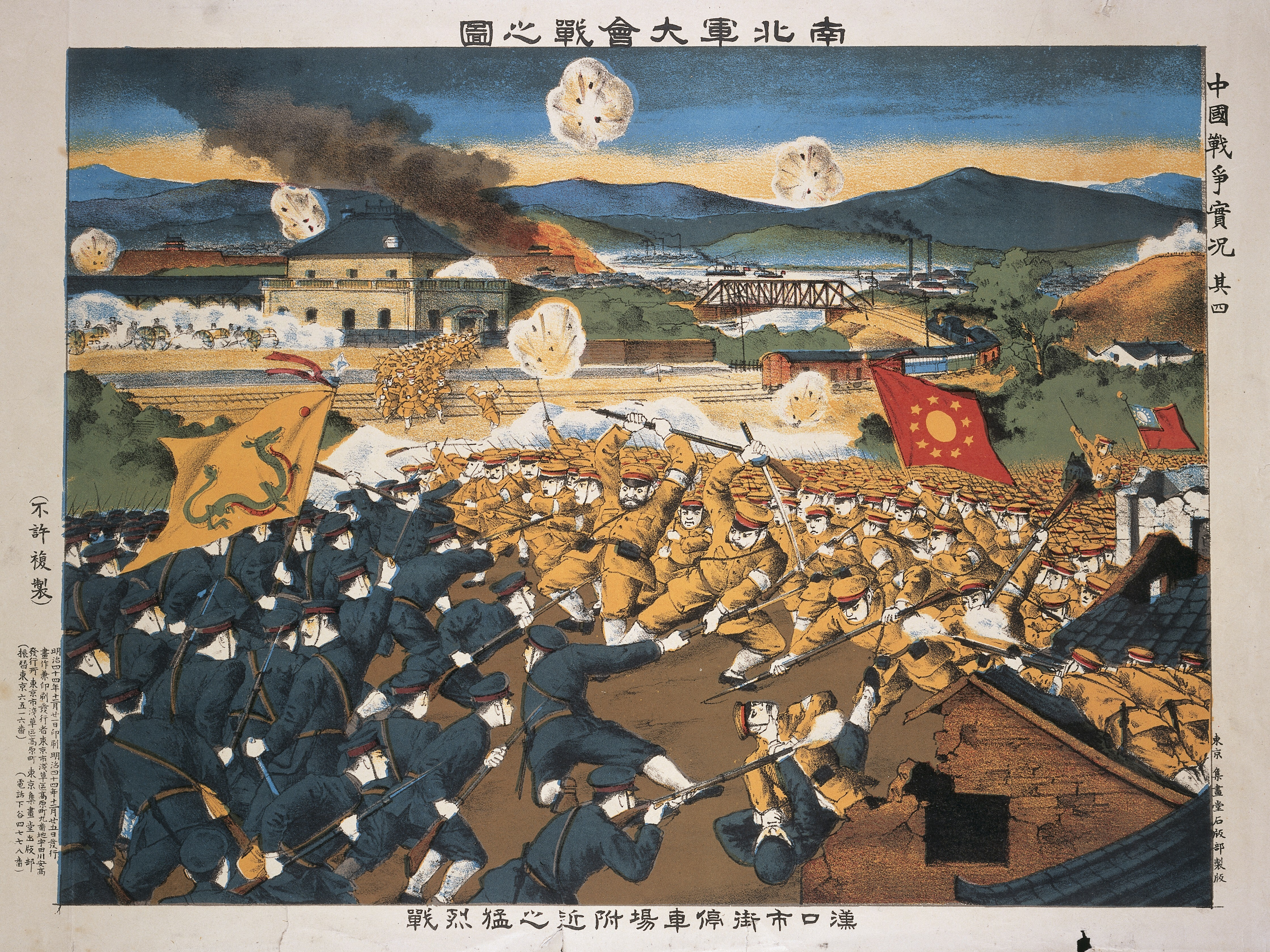 An episode in the revolutionary war in China, 1911: a pitched battle between the imperial army (left) and the revolutionary army (right). Iconographic Collections Keywords: Revolution; Chinese Revolution; Military History; Fighting; China; Battles; Railway; Xinhai Revolution; T. Miyano; Manchu (Qing) Dynasty